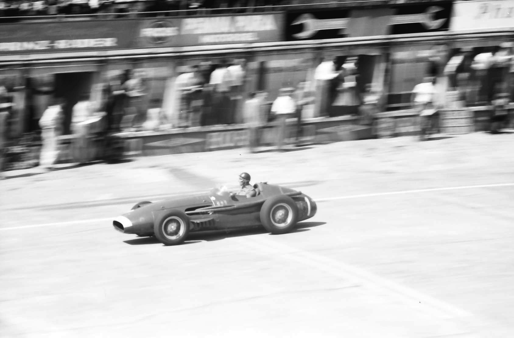 Reigning World Drivers' Champion, Juan Manuel Fangio, in a Maserati 250F car, leading the 1957 German Grand Prix at the Nürburgring, West Germany.